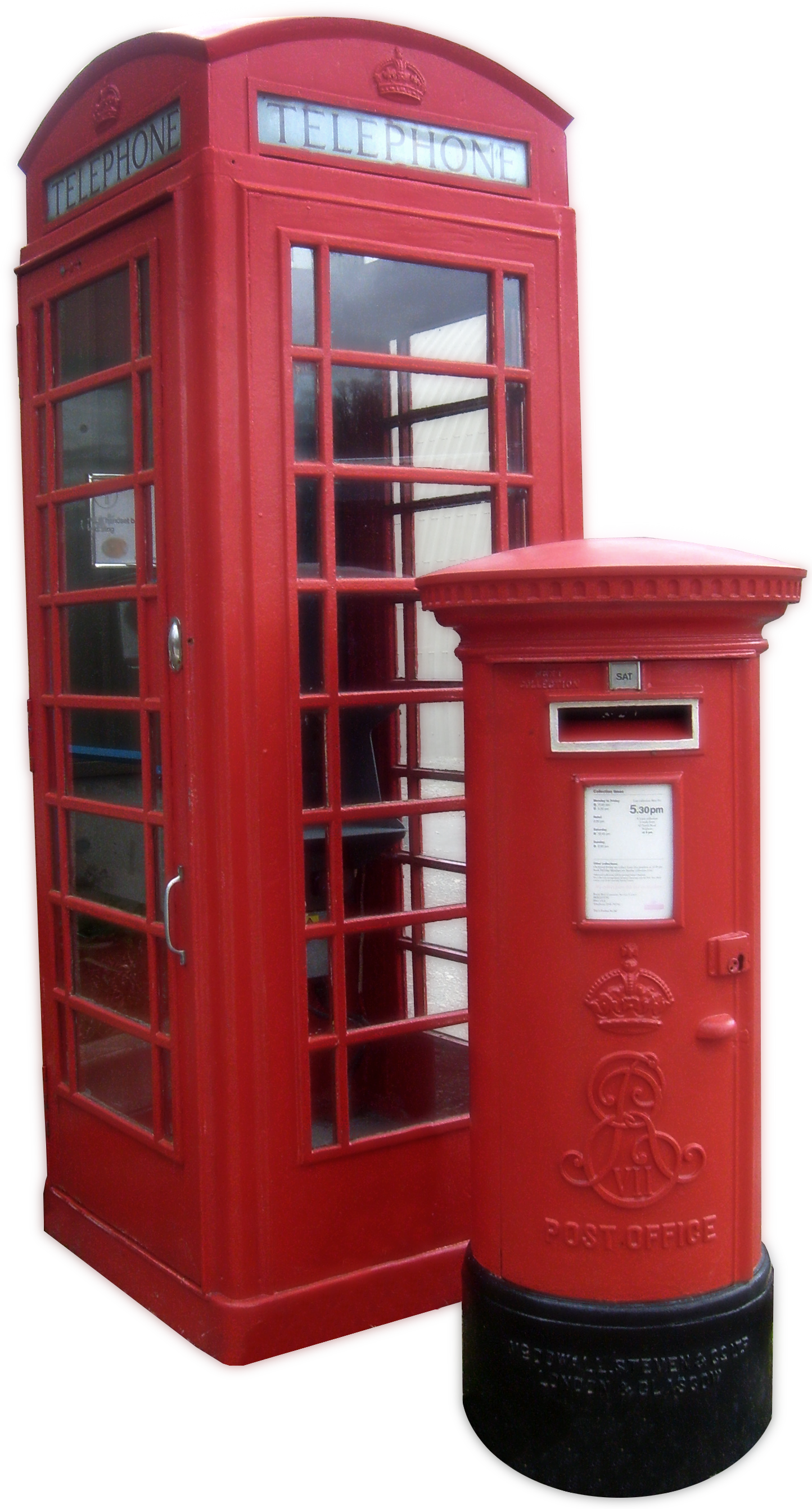 A K6 Telephone Box and a King Edward VII Pillar Box at the Amberley Working Museum. Original file by Unisouth - I just cut it out and cleaned it up for use on the web. Moderators: sorry if I have uploaded this incorrectly. Had a bit of trouble with the derivative upload page.